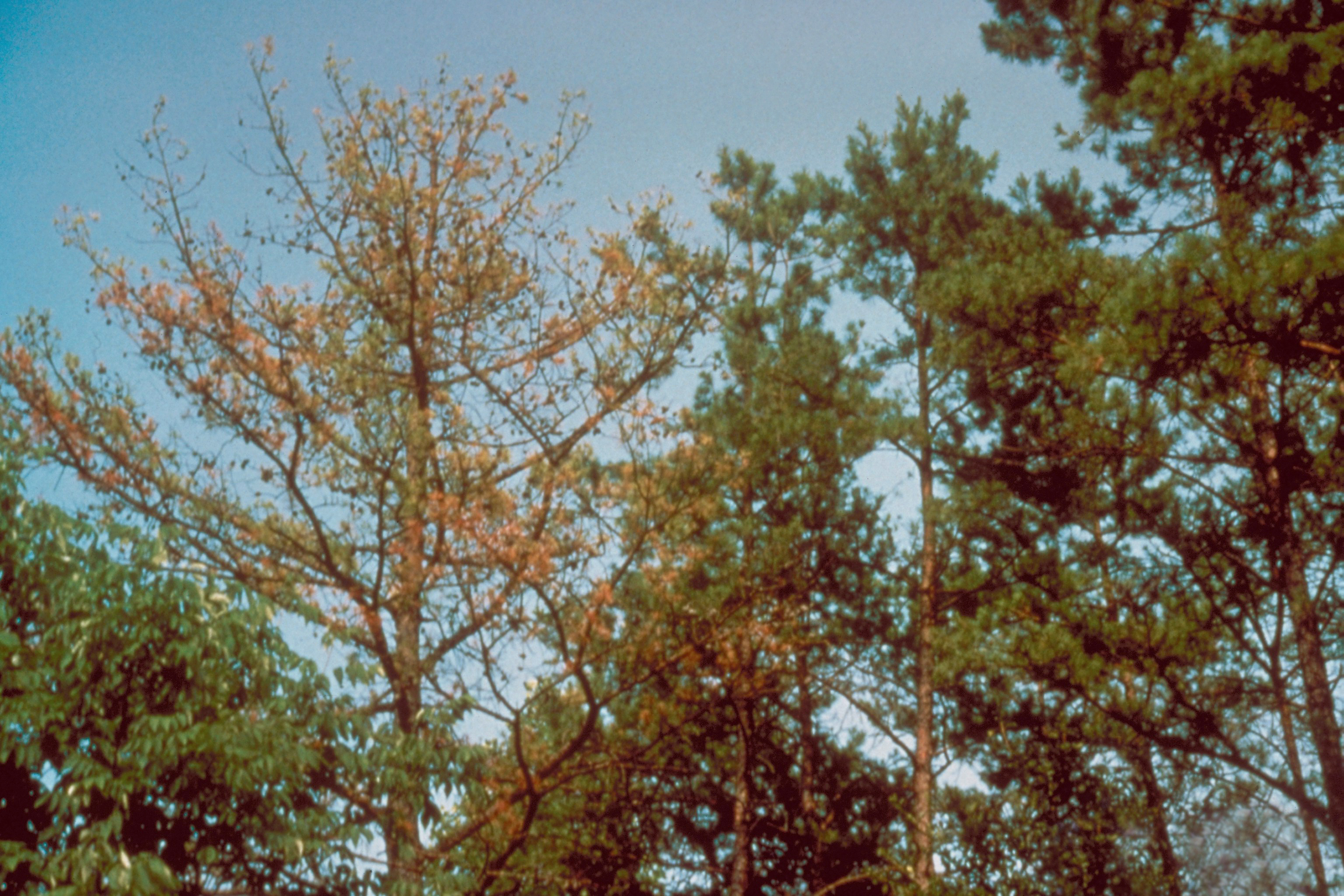 Pinus echinata; tree at left killed by Phytophthora cinnamomi, healthy trees at right.